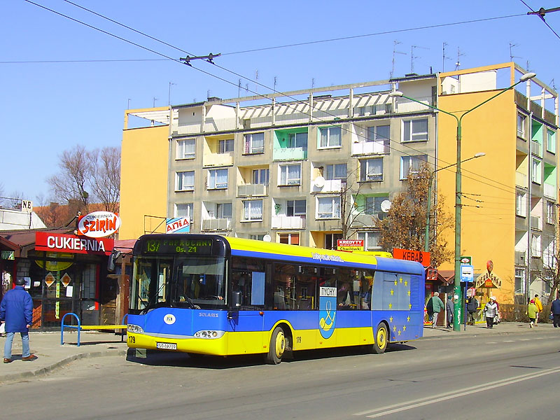 Solaris Urbino 12 Mk2 bus (#179) in Tychy, Poland. Year build 2003, PKM Tychy operator.